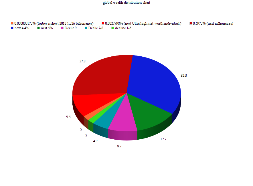 world wealth distribution